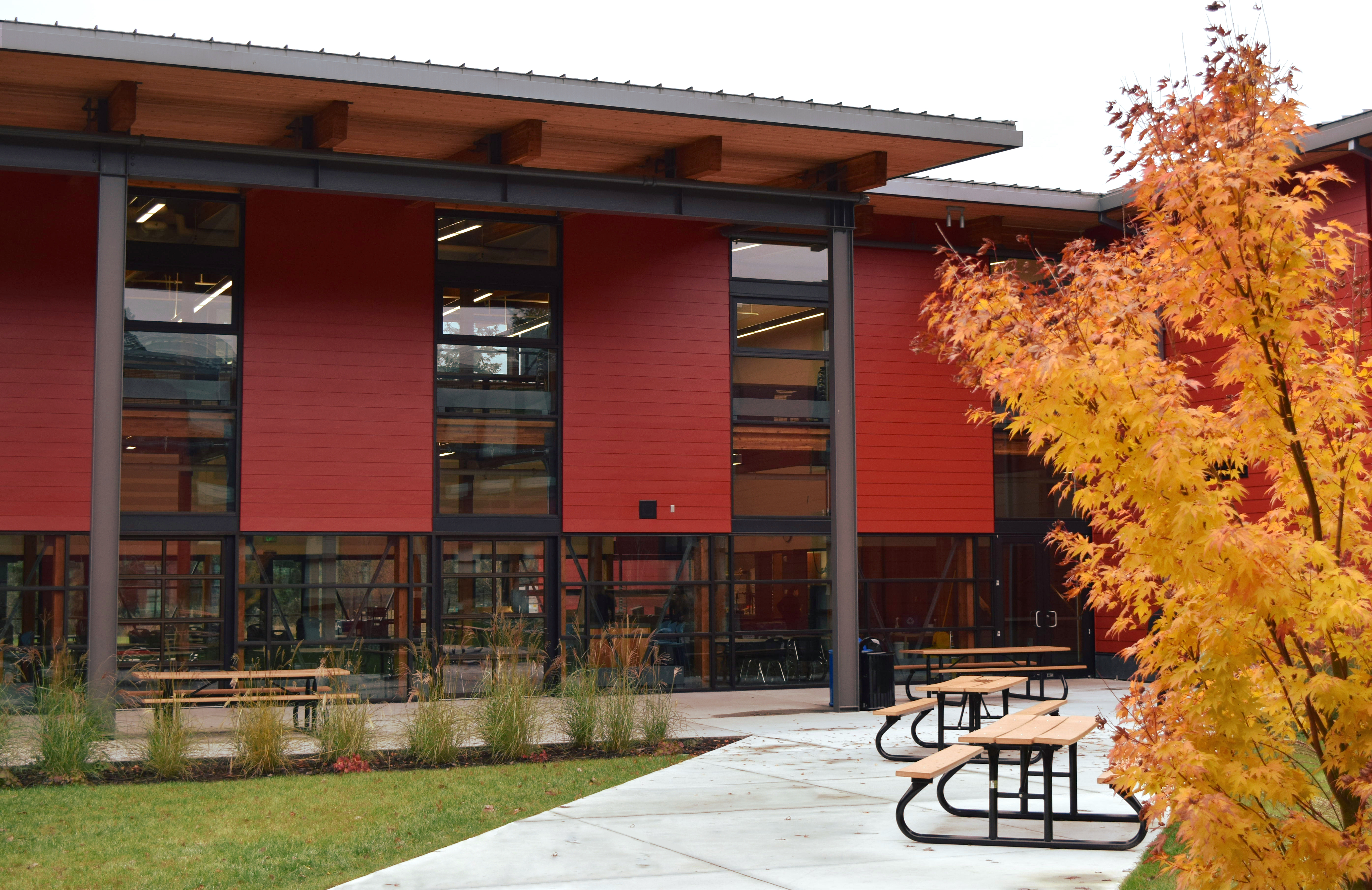 Vashon Island High School, 2014